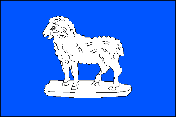 Municipal flag of Modrá village, Uherské Hradiště District, Czech Republic.